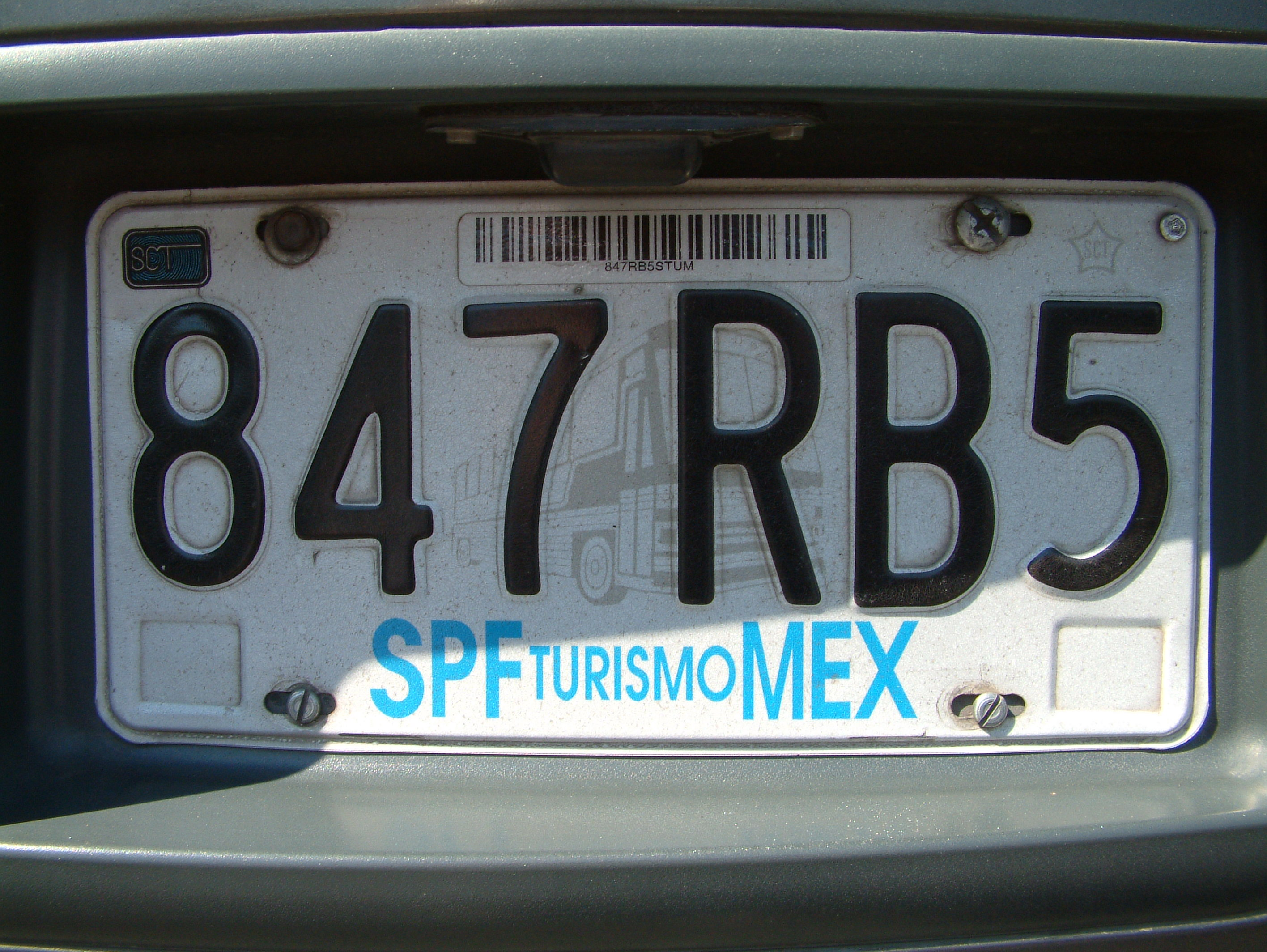 License plates of Mexico, vehicle in Public Federal Service (SPF).